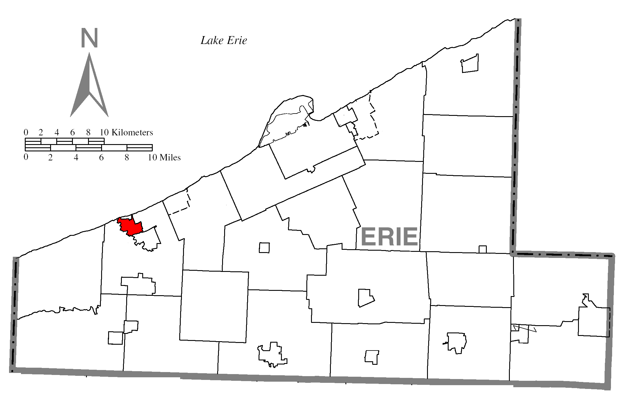 A map of Erie County showing Lake City, Pennsylvania (alternate) highlighted on the map.